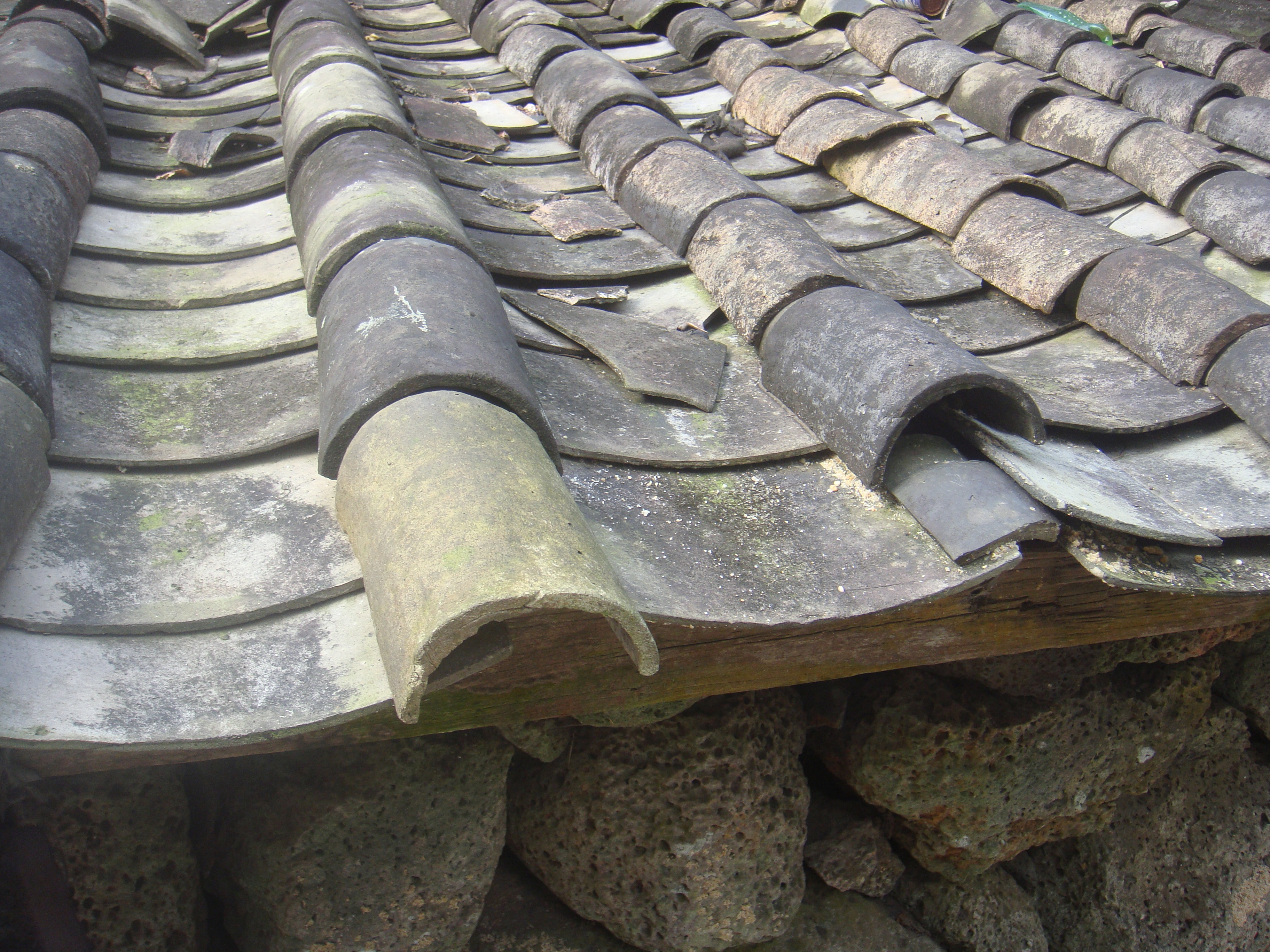 Tiled roof in Hainan, China